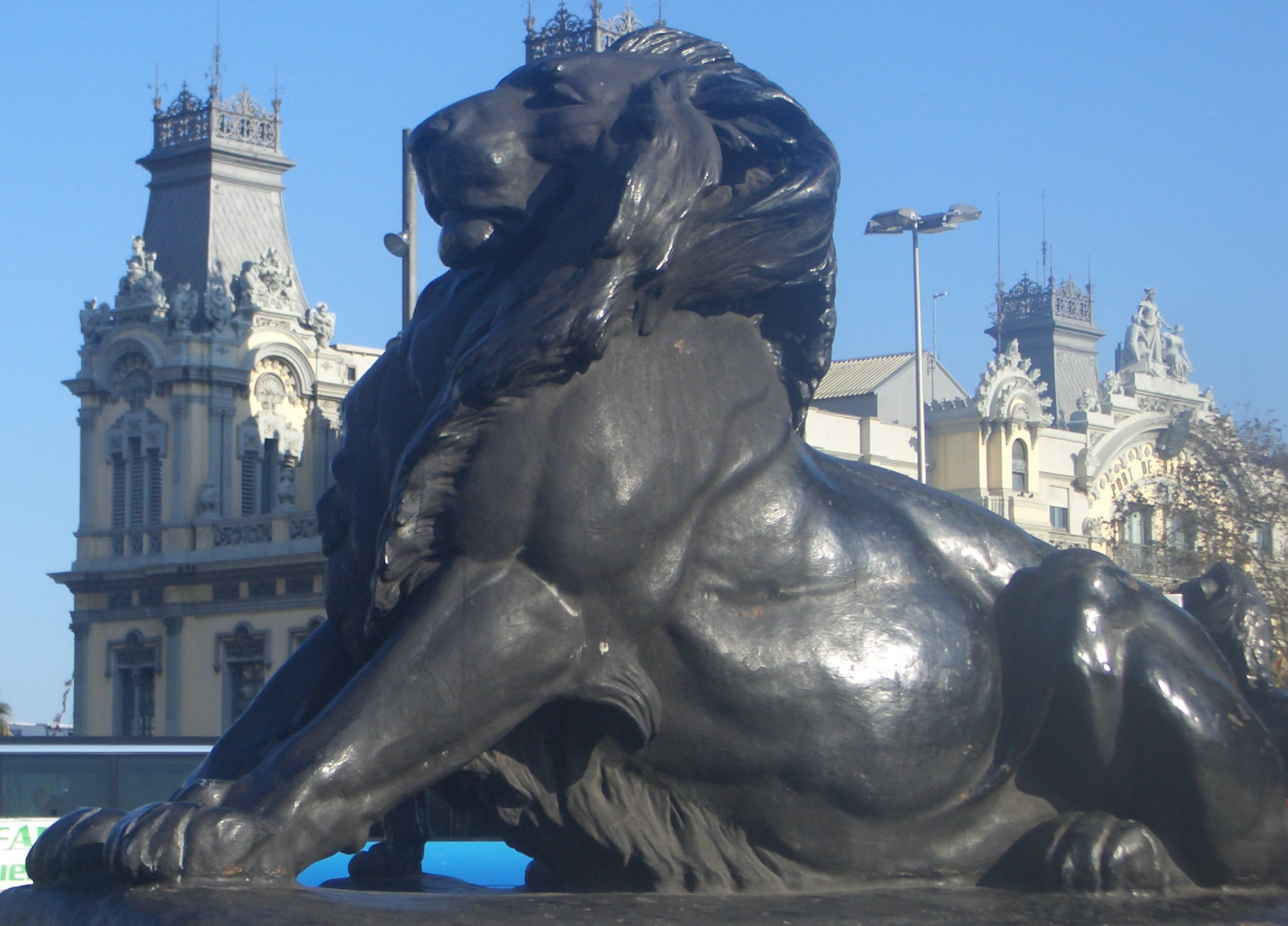 Statue of Columbus, Barcelona.